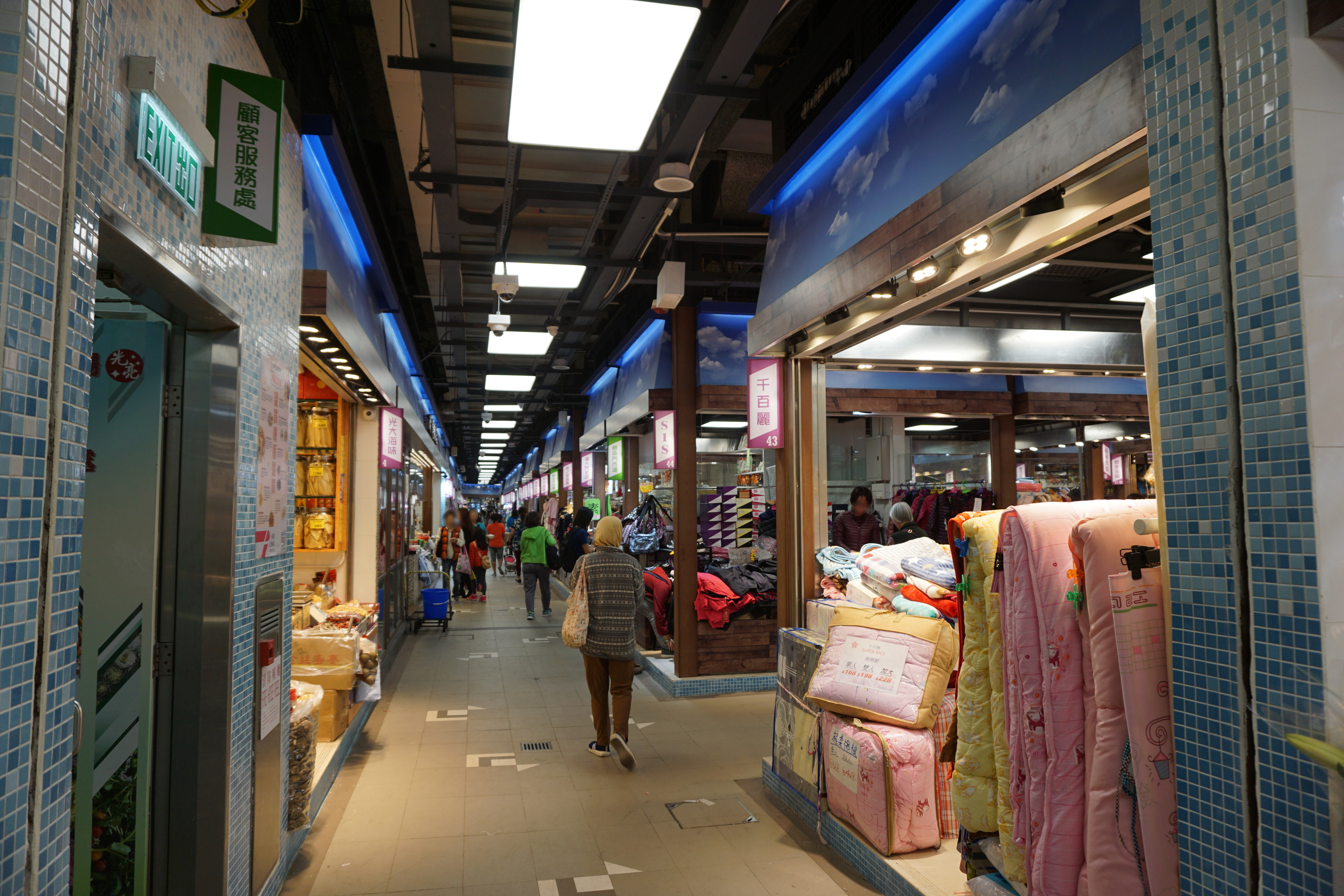 Lei Yue Mun Market in Yau Tong, Hong Kong.